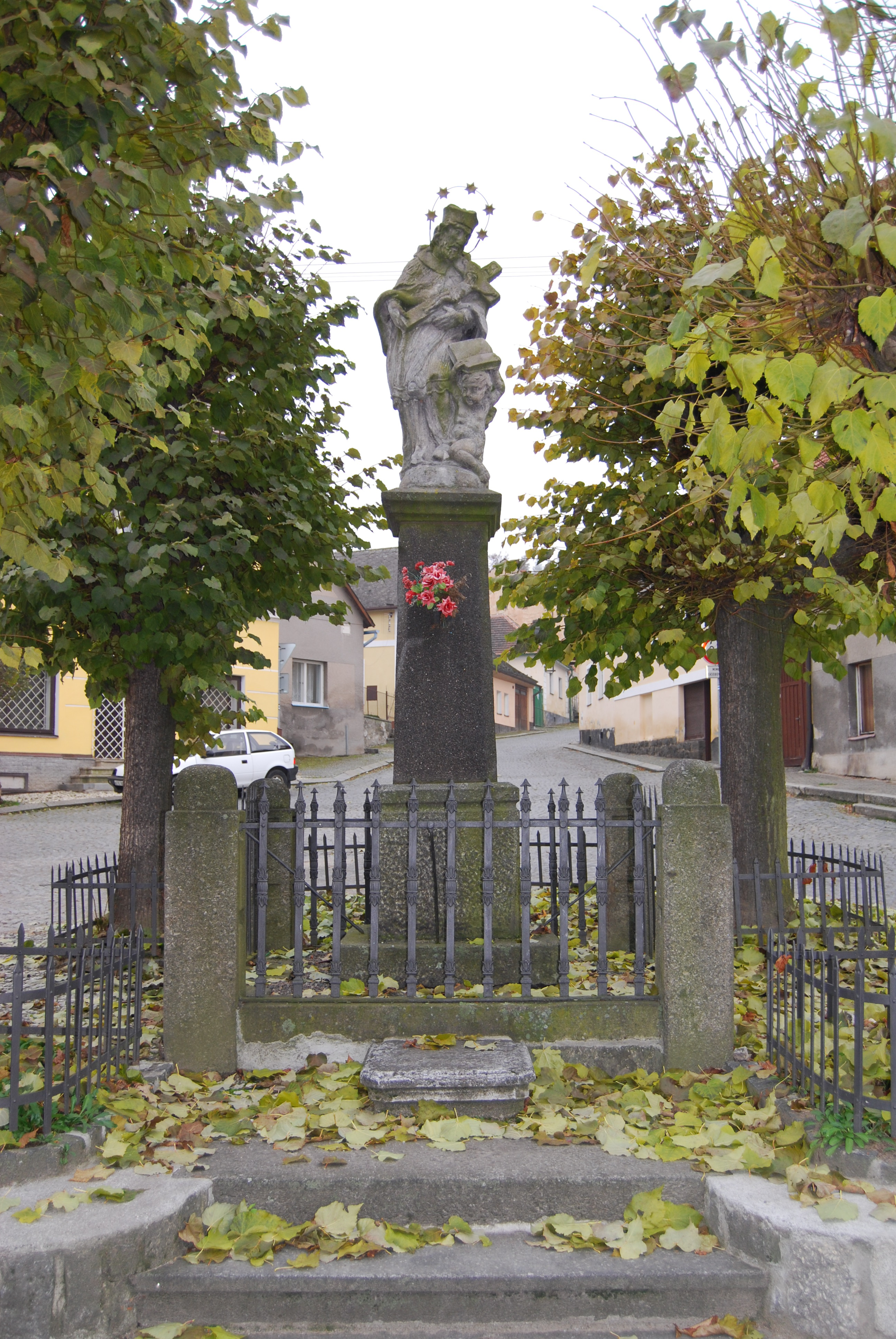 Statue on the square in Čestice, Strakonice District, Czech Republic